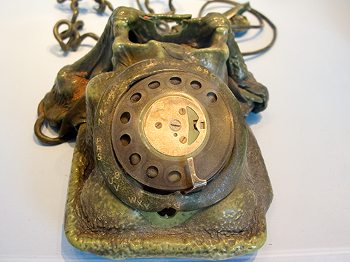 Amberely Chalk Pits Museum has a BT Exibition featuring a Phone Struck by Lightning. Taken through Glass, the Anti Shake feature of the Nikon 8800 was very useful